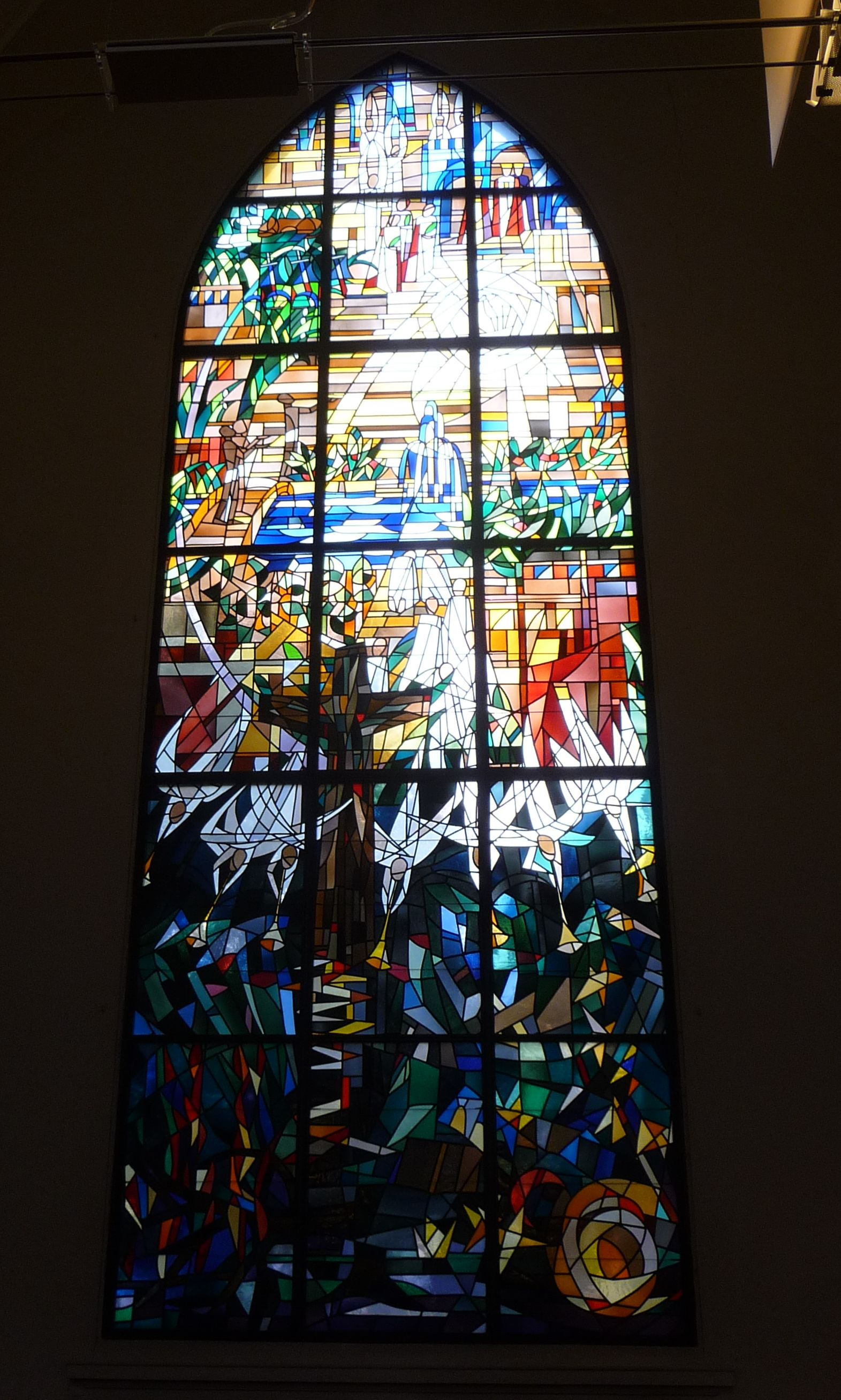 Church in Bremen, Germany